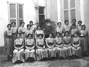 Maria Valtorta, italian religious writer, mysticm with her classmates of Bianconi School of Monza